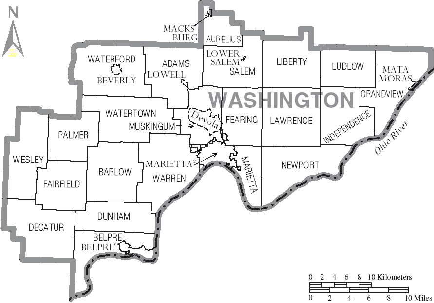 Map of Washington County, Ohio, United States with township and municipal boundaries